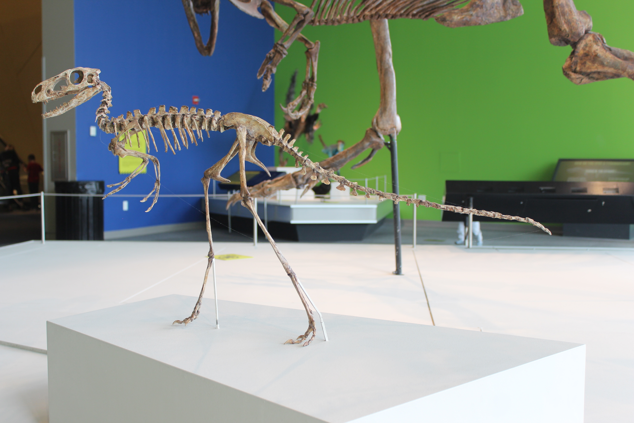 Dilong cast skeleton on display in Des Moines Science Center during Tyrannosaurs: Meet the Family exhibit.